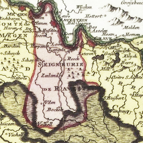 Part of bigger map: Nova tabula geographica exhibens ducatum Brabantiæ cum pertinentiis et adjacentibus regionibus